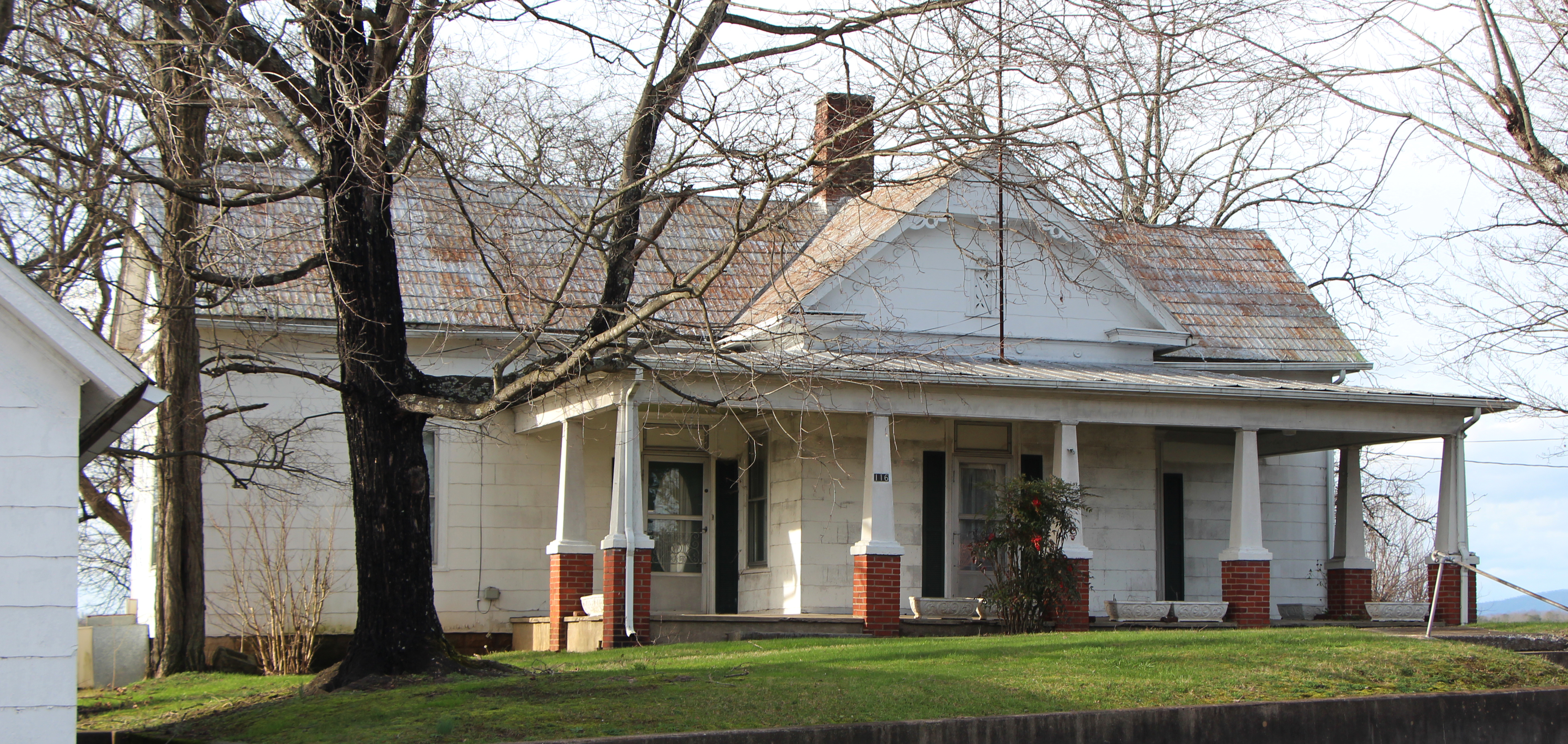 Myers Residence, 116 South Main Street, Bulls Gap, TN